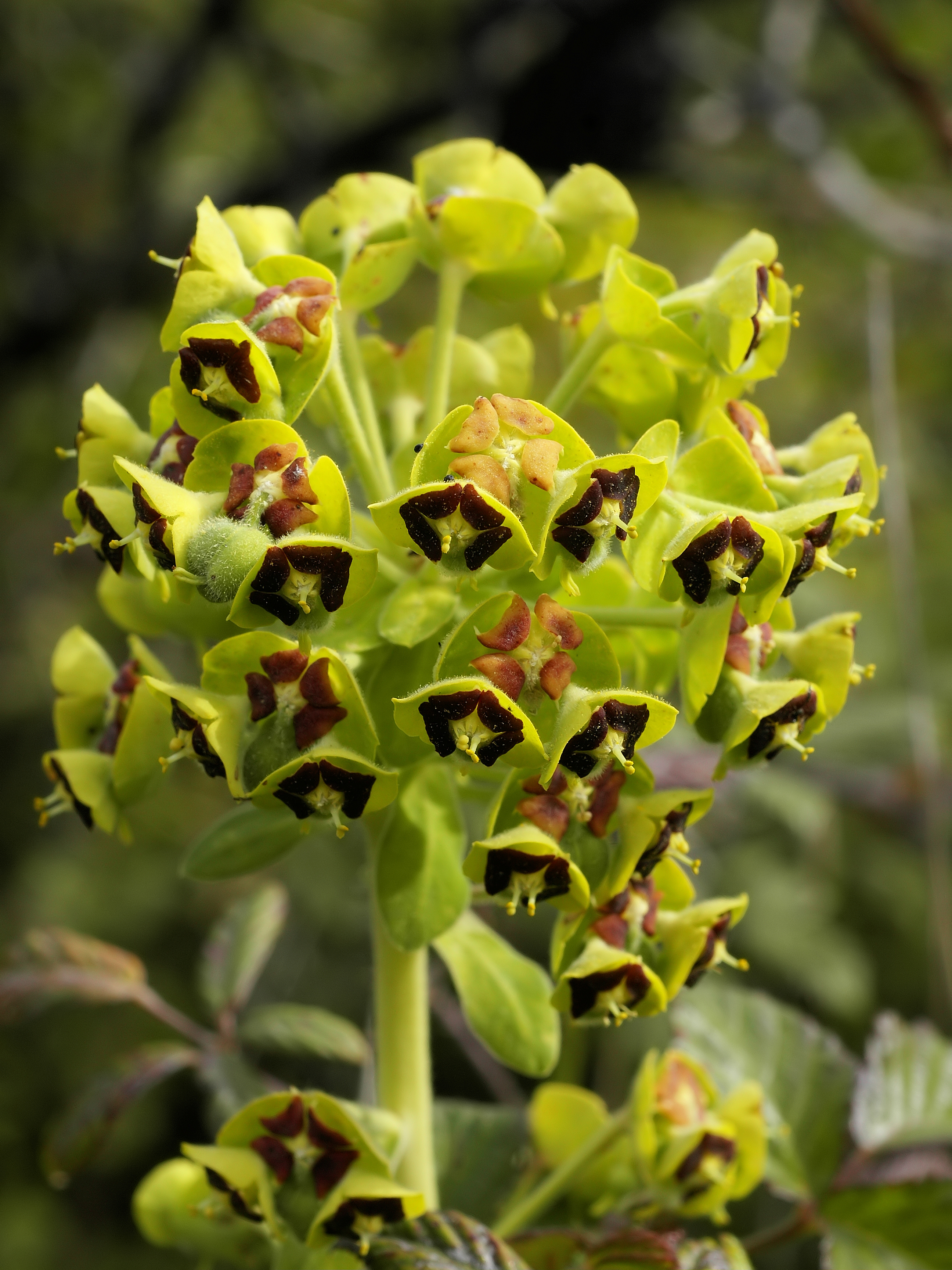 Plant showing characteristic flowers and fruits, near el Perelló, Catalonia, Spain